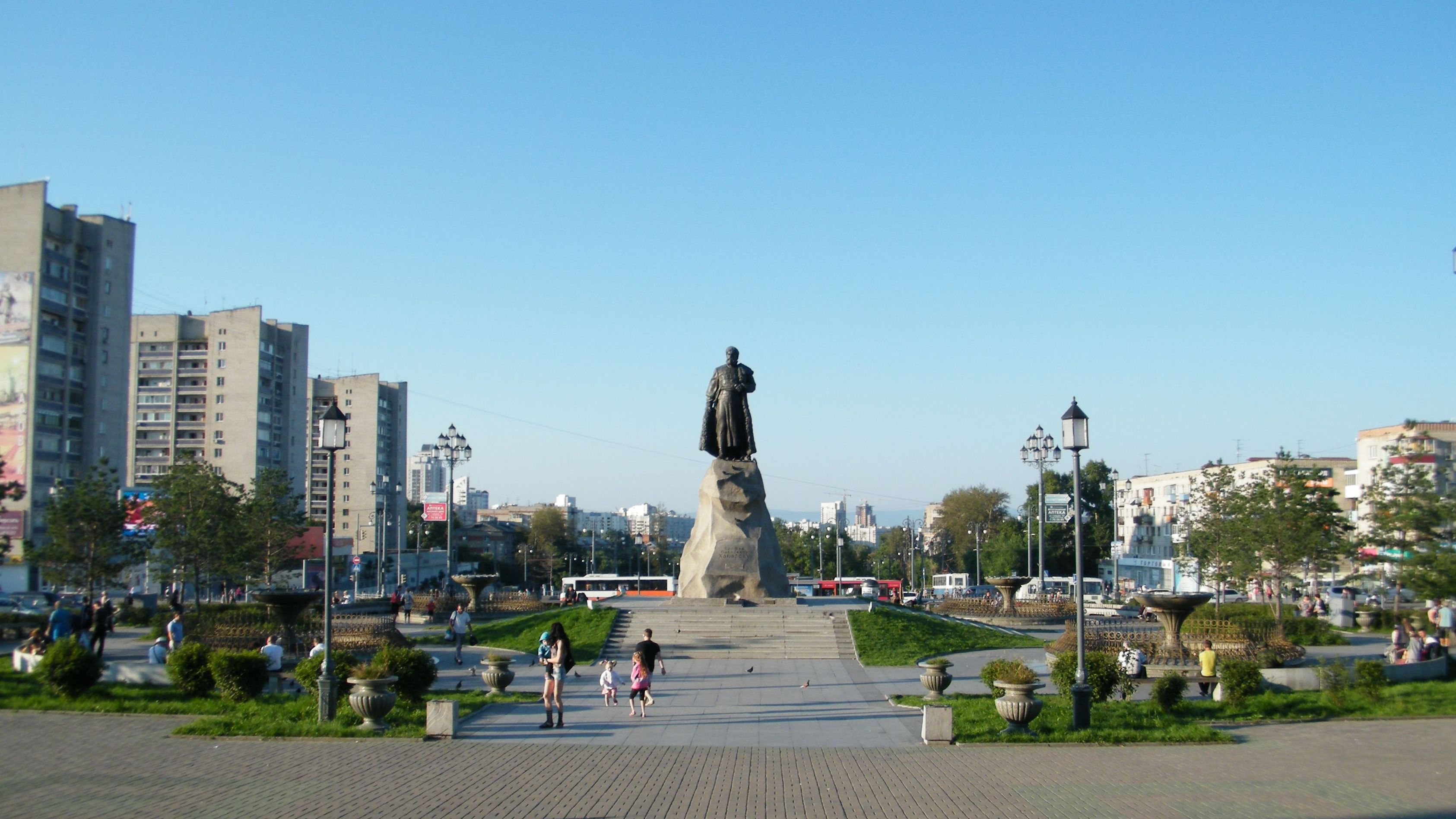 Khabarovsk